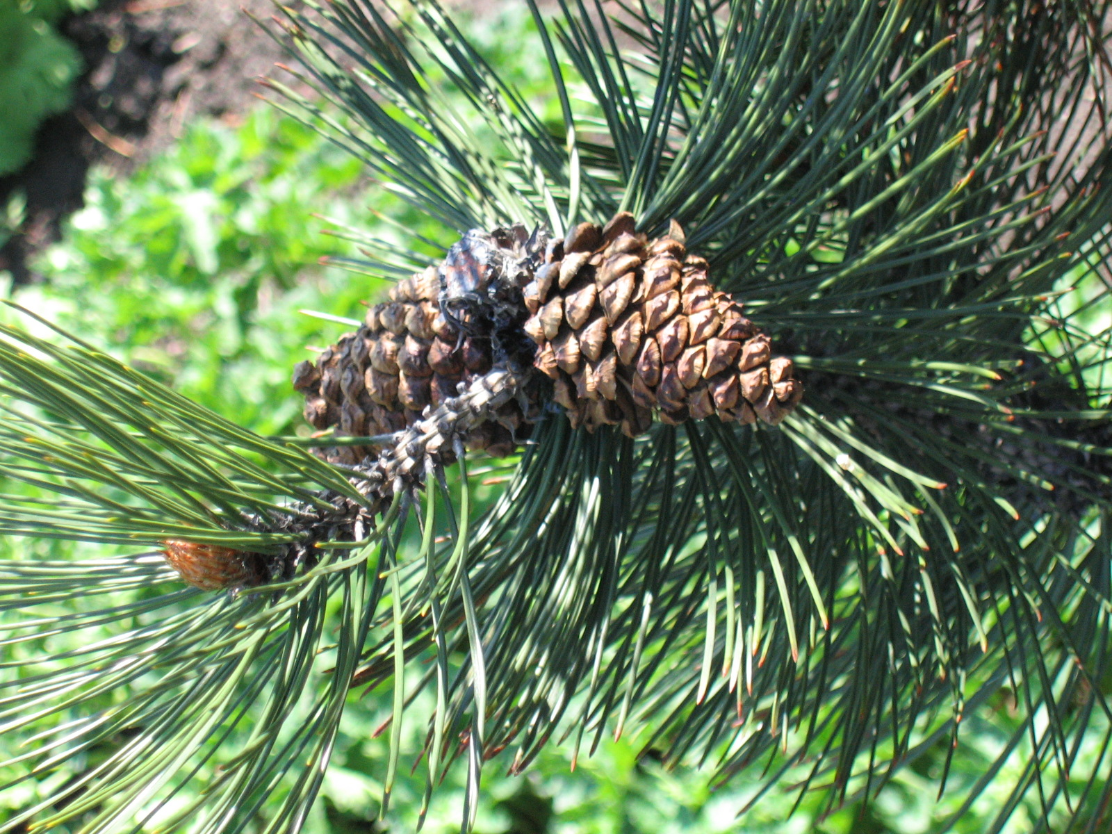 Bosnian Pine cultivar 'Satellit' (Pinus heldreichii 'Satellit'), seed cones. Tree cultivated in Wrocław University Botanical Garden, Wrocław, Poland.